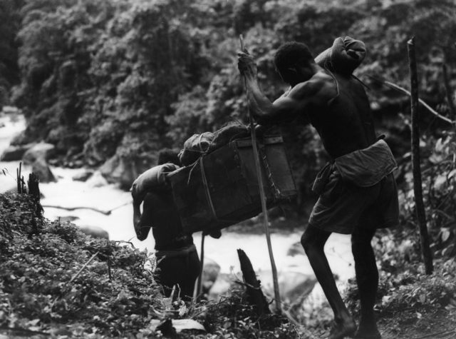 NATIVE BEARERS (POPULARLY KNOWN AS FUZZY WUZZY ANGELS) WALK LONG DISTANCES CARRYING HEAVY LOADS OF SUPPLIES AND EQUIPMENT FOR AUSTRALIAN TROOPS.